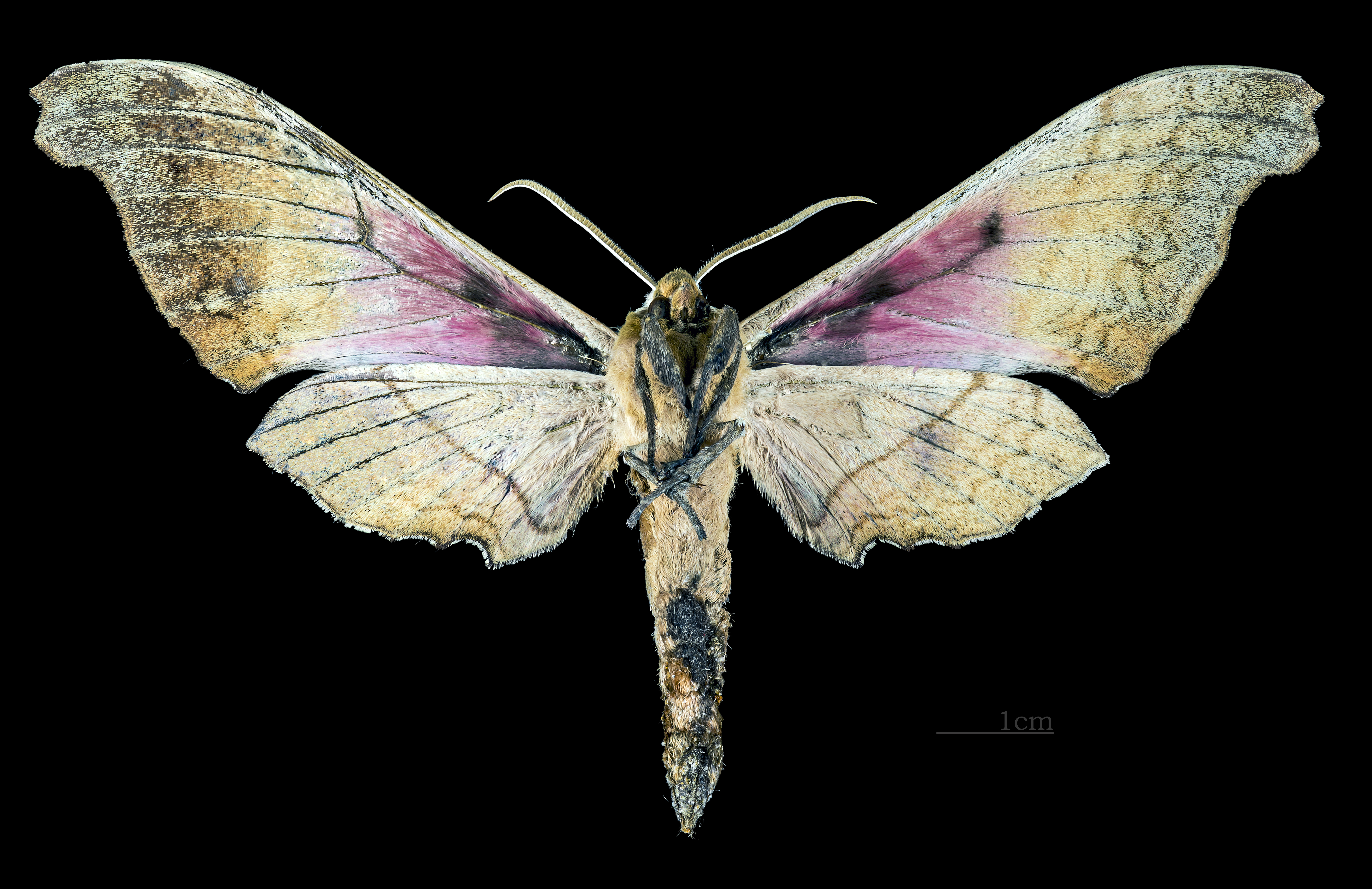 Trogolegnum pseudambulyx - △ Ventral side Collection of the Mathematician Laurent Schwartz